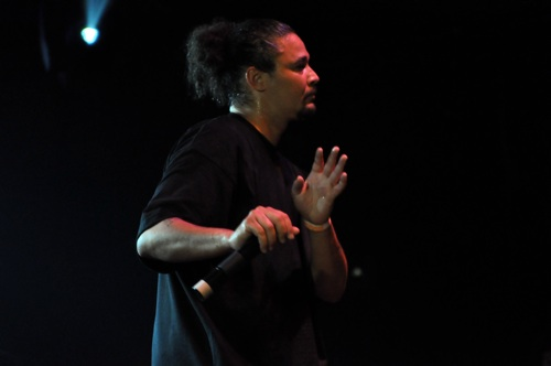 Bizzy Bone (of Bone Thugs & Harmony) - Live in Concert